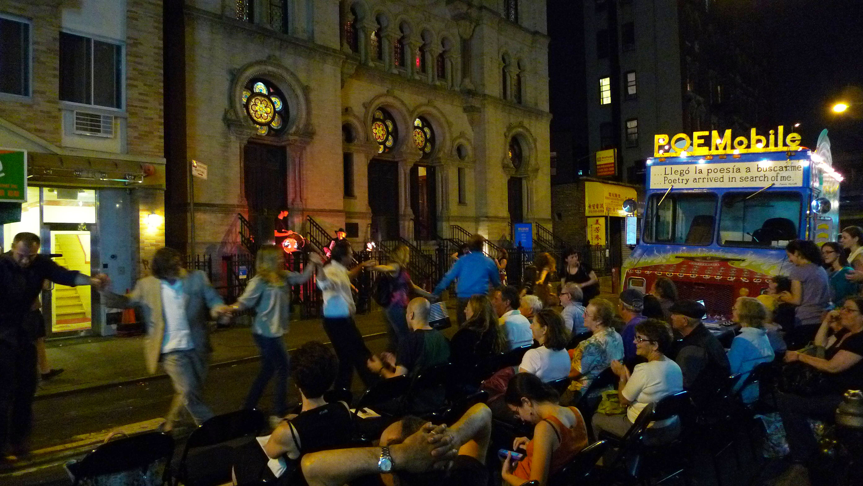 Non copyrighted Image of the Poemobile